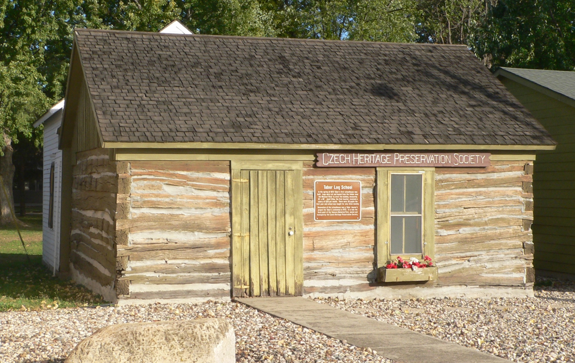 Tabor log school, located in Vancura Memorial Park on east side of Lidice Street in Tabor, South Dakota; seen from the west-northwest.